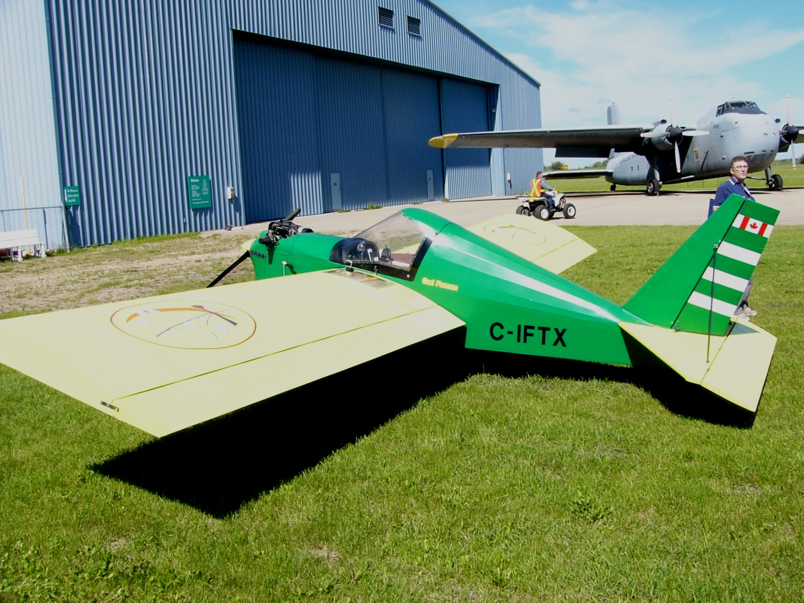 A TEAM Mini-MAX 1600R at the COPA Convention Wetaskiwin, Alberta, Canada